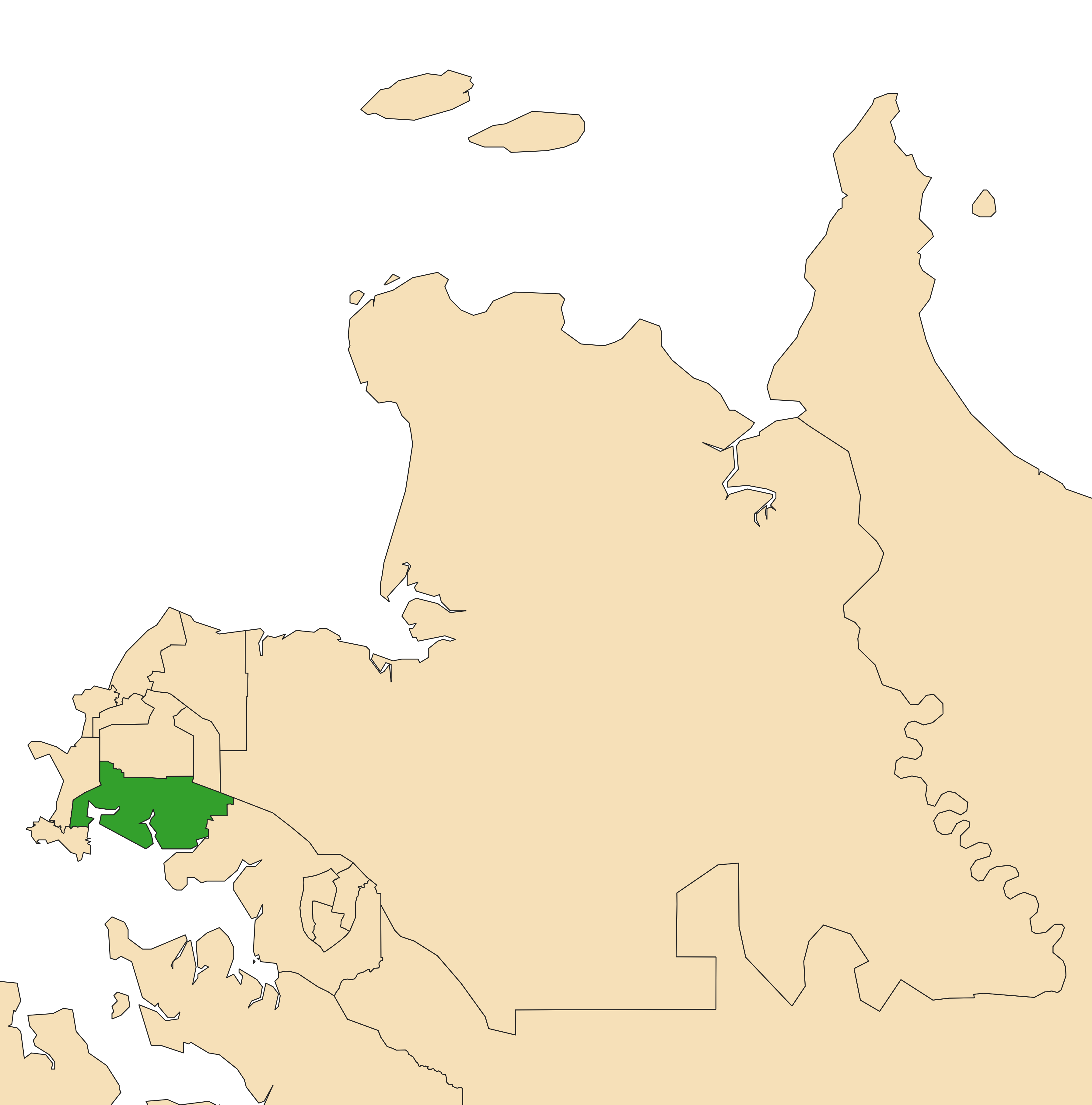 Location of the electoral division of Fong Lim (dark green) in the Darwin/Palmerston area of the Northern Territory at the 2020 Northern Territory election